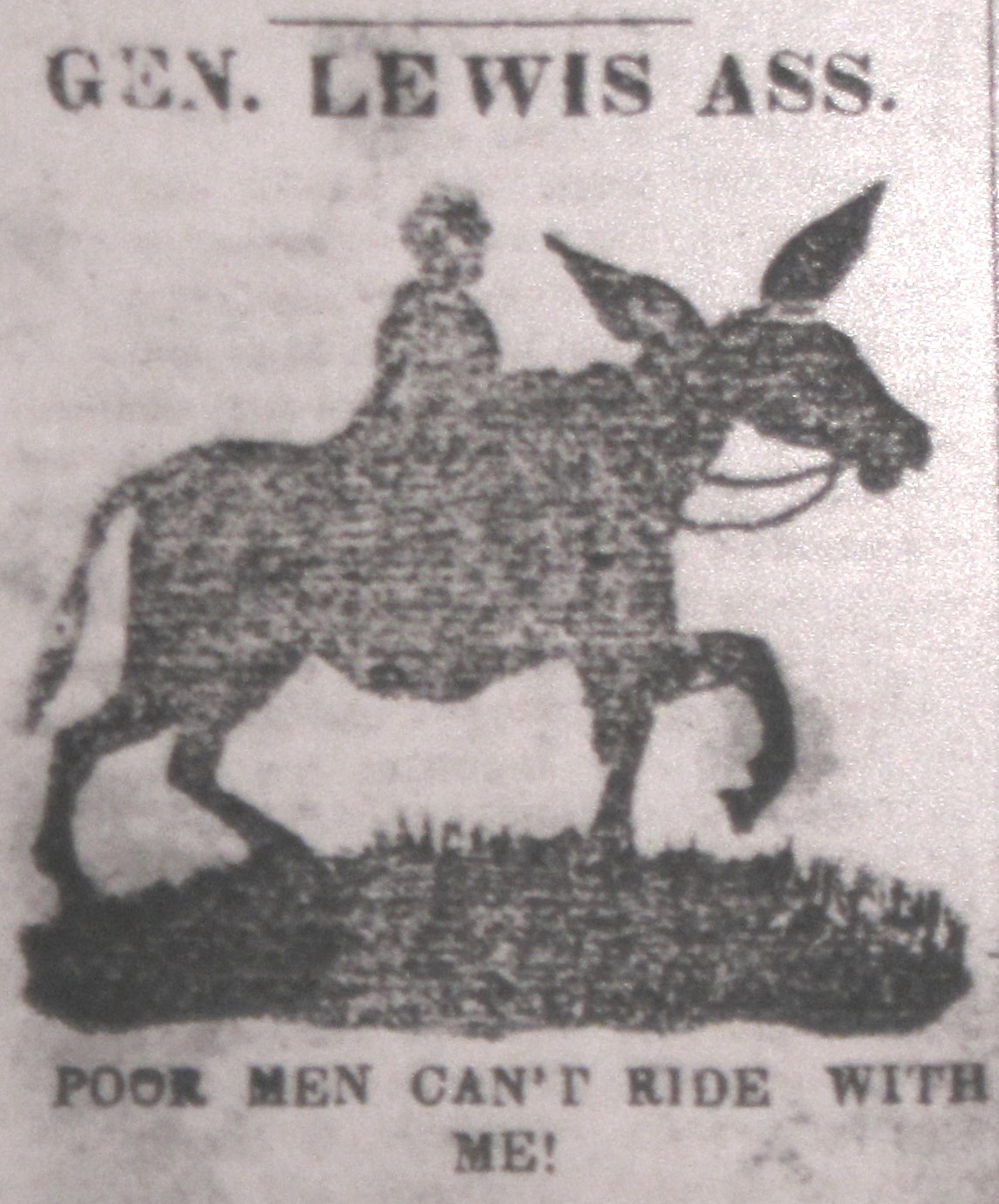 Graphic from the Jonesborough Whig mocking 1848 U.S. presidential candidate Lewis Cass.